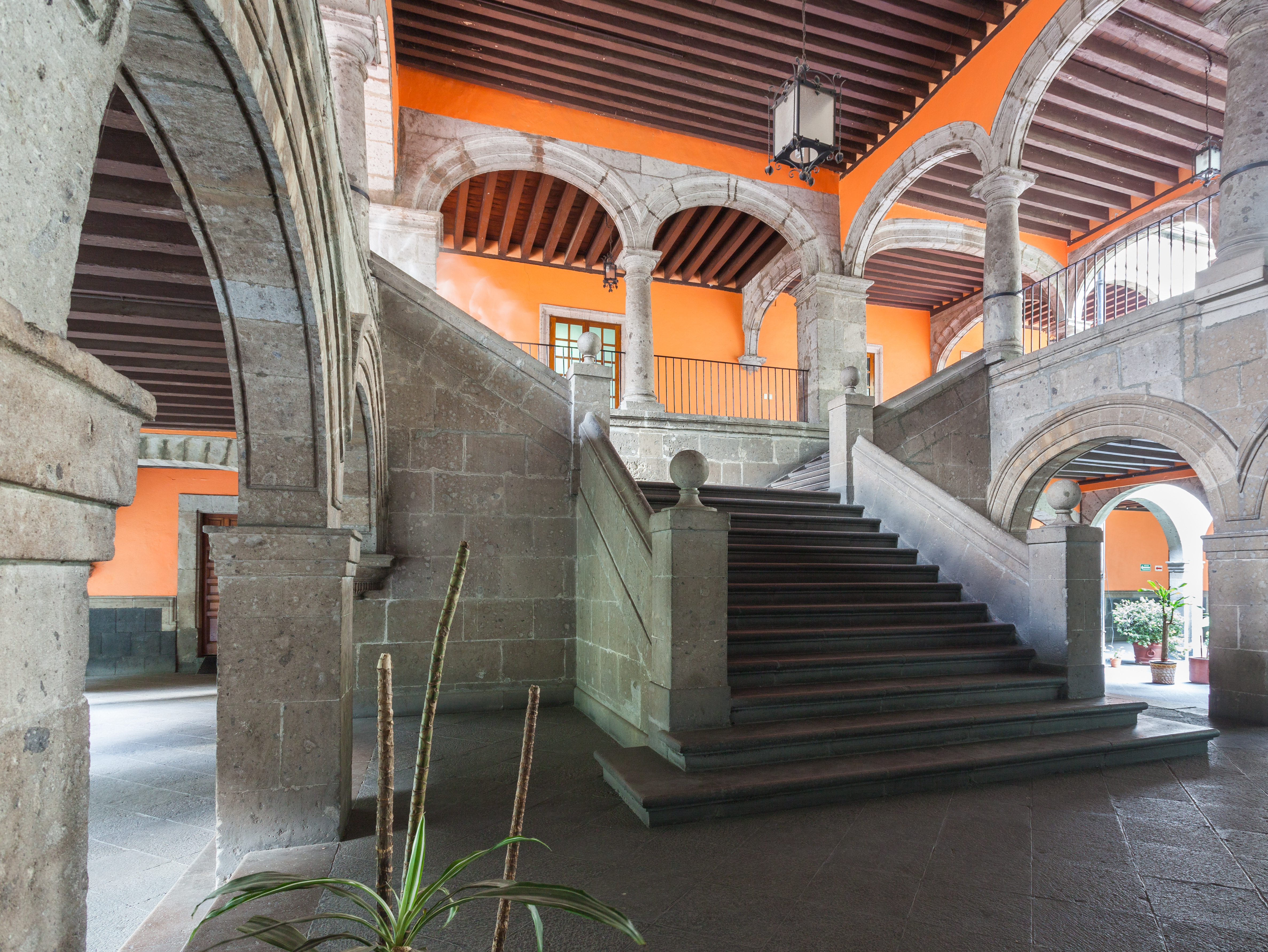 Jesus Hospital, Mexico City, Mexico